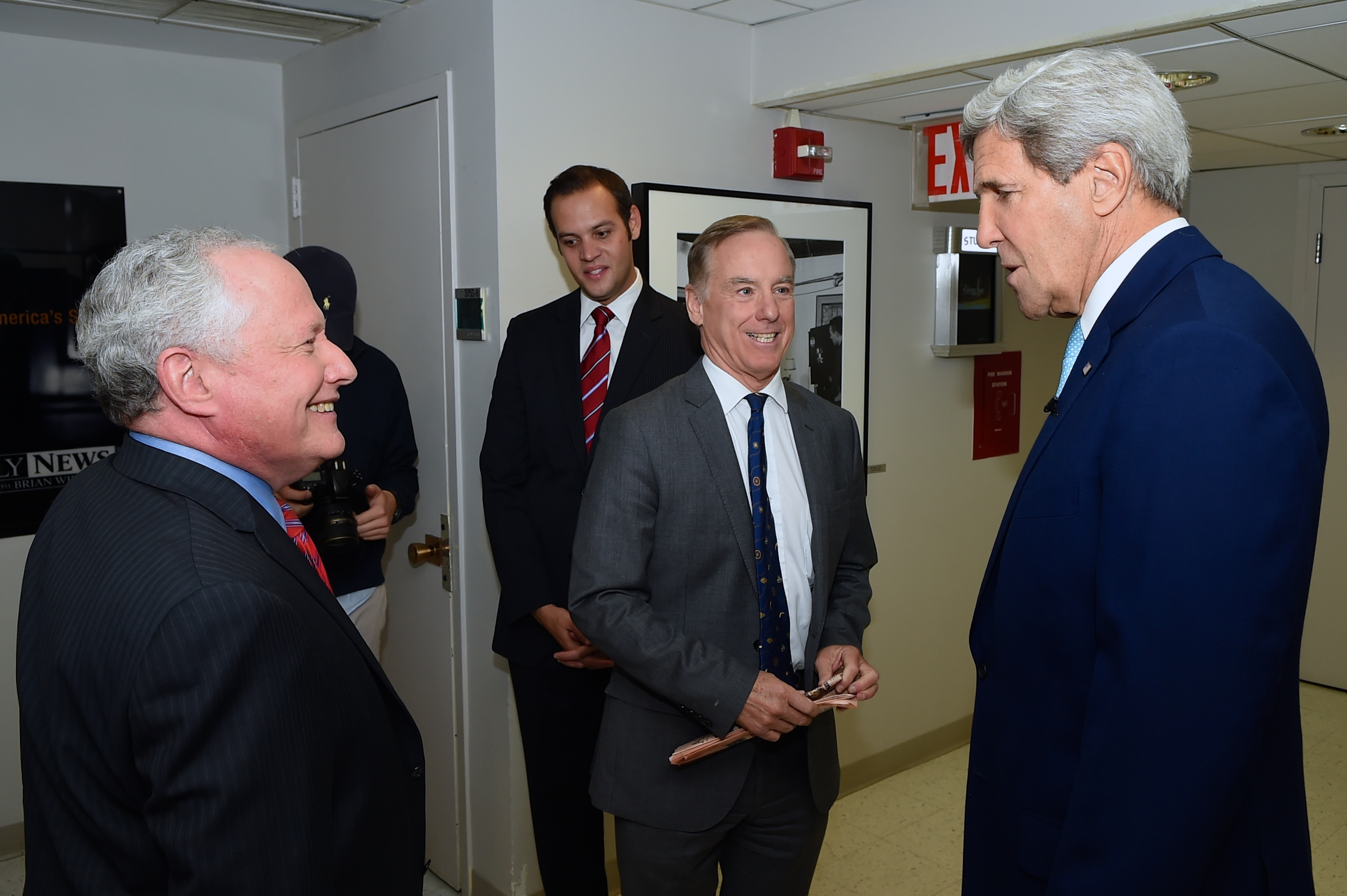 U.S. Secretary of State John Kerry chats with "Weekly Standard" Editor William Kristol and former Democratic National Committee Chairman Howard Dean before appearing on MSNBC's "Morning Joe" program on September 22, 2014, to talk about world affairs and the start of annual meetings of the United Nations General Assembly in New York City. [State Department photo/ Public Domain]